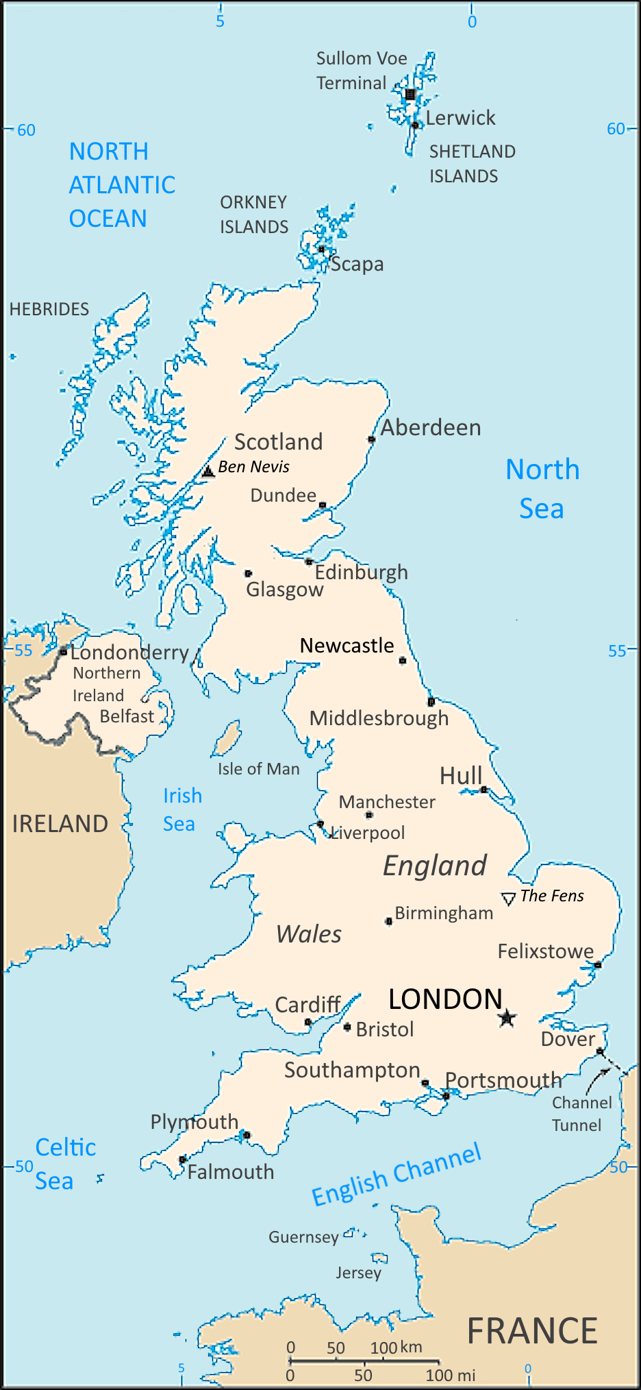 CIA map of the United Kingdom.